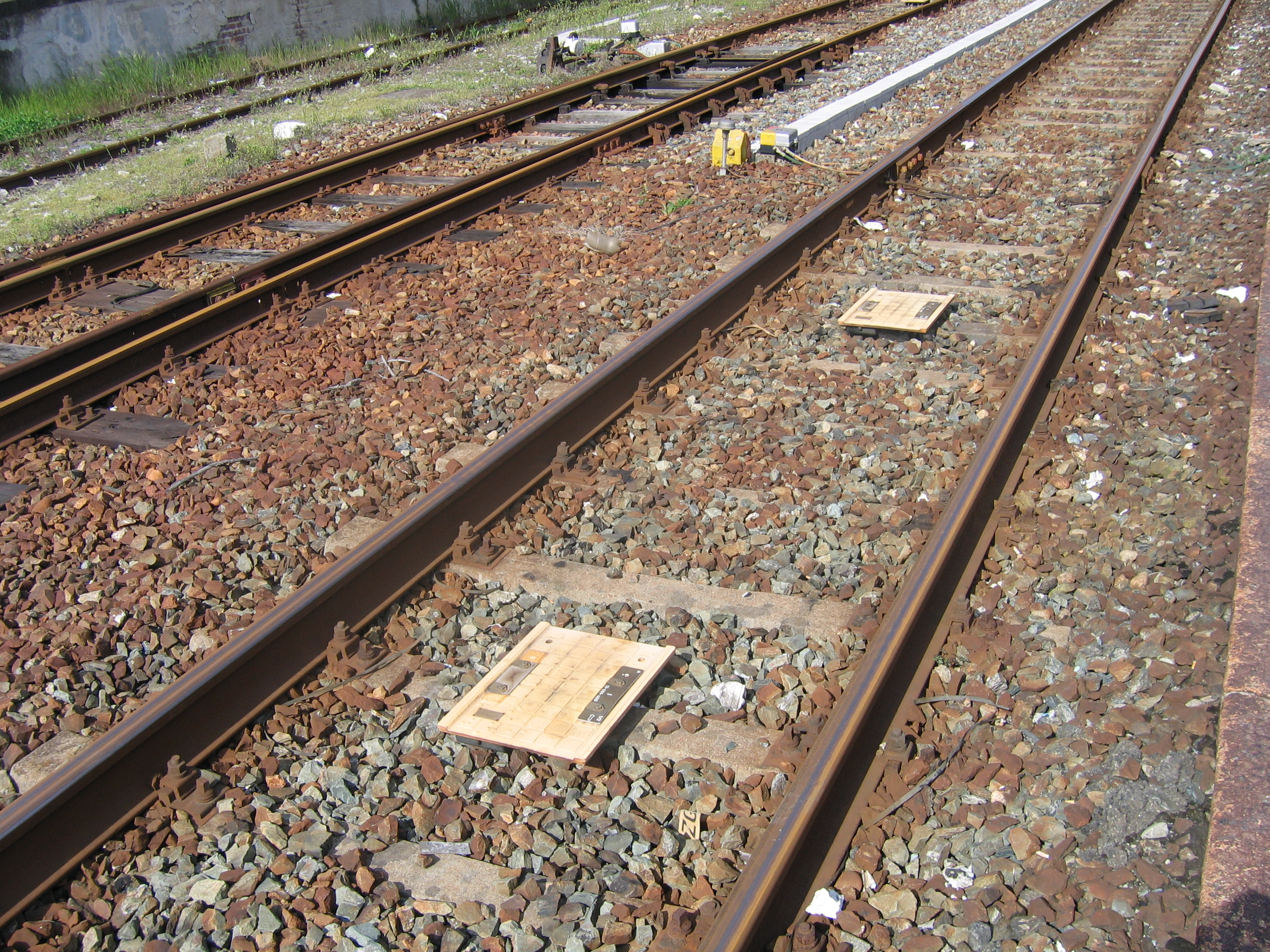 rail security ground equipment. Italy